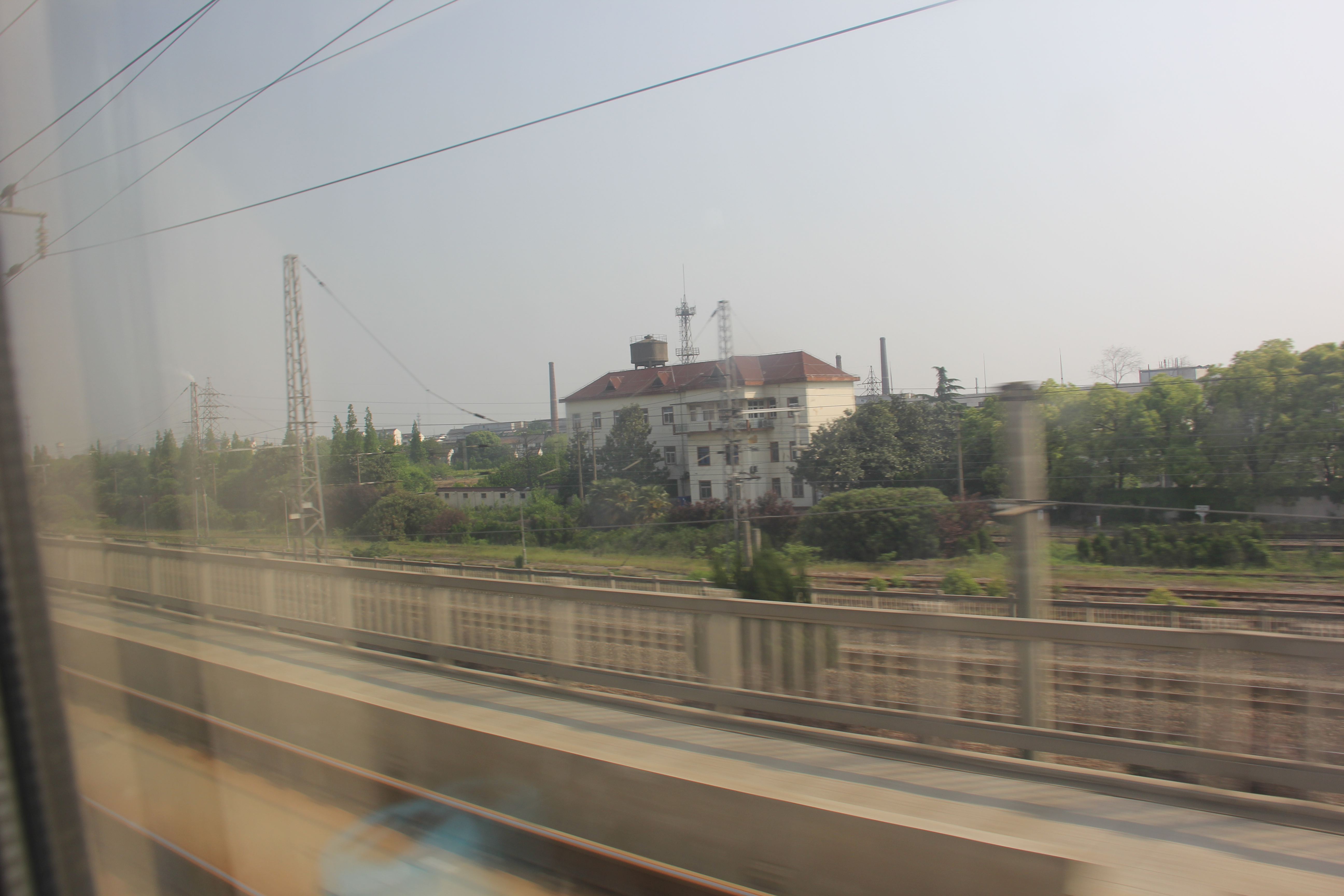 201604 Abandoned Wancheng Railway Station